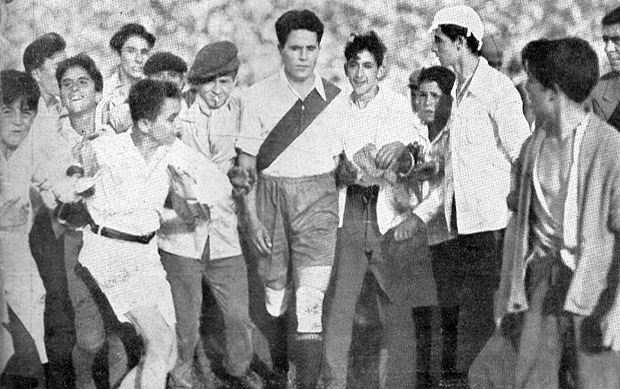 River Plate's striker Bernabé Ferreyra during his last official match against Newell's Old Boys, surrounded by a group of fans.